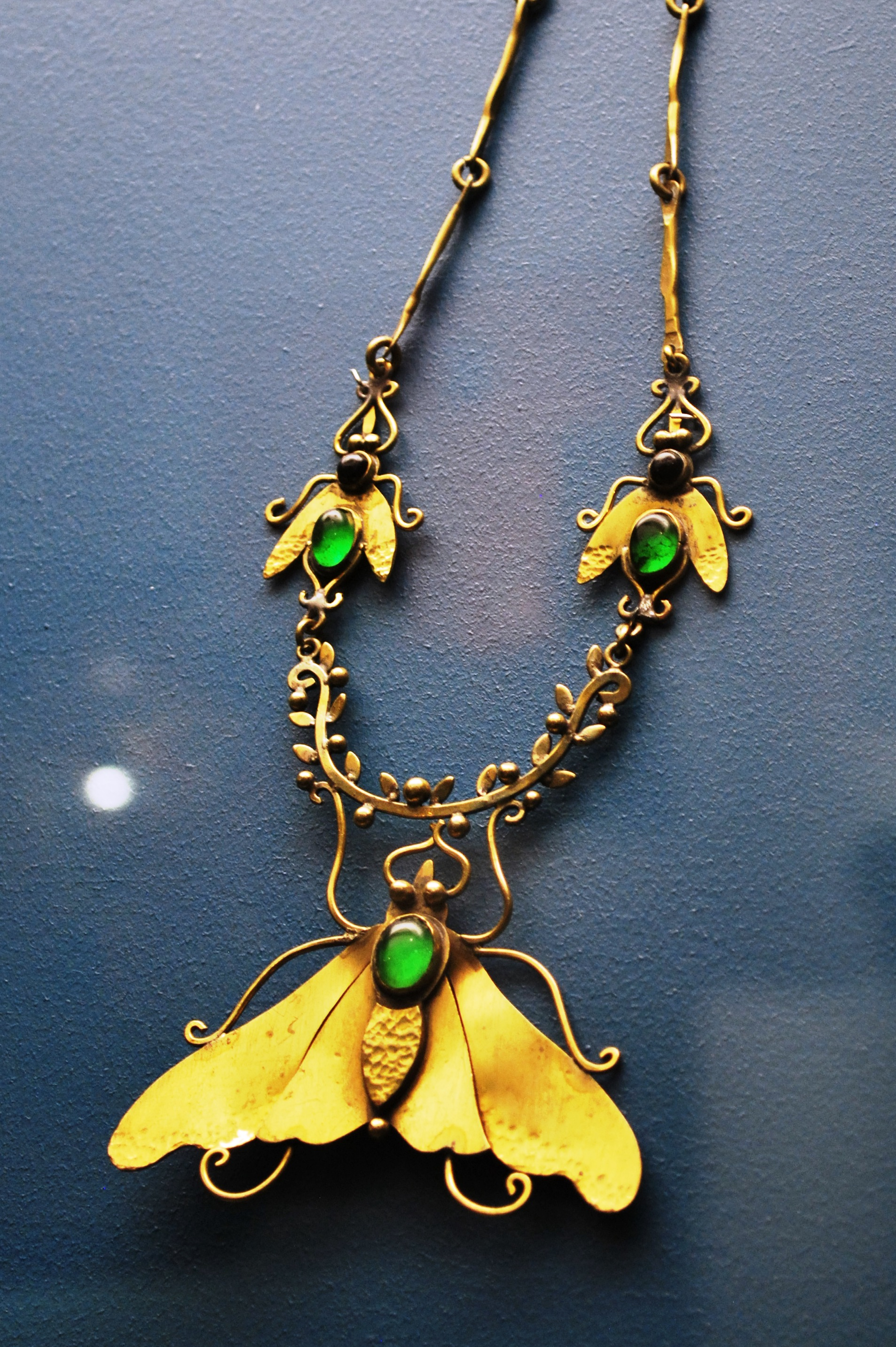 Brass and glass necklace with flies and butterfly from Jalisco on display at the Museum of Artes Populares in Mexico City